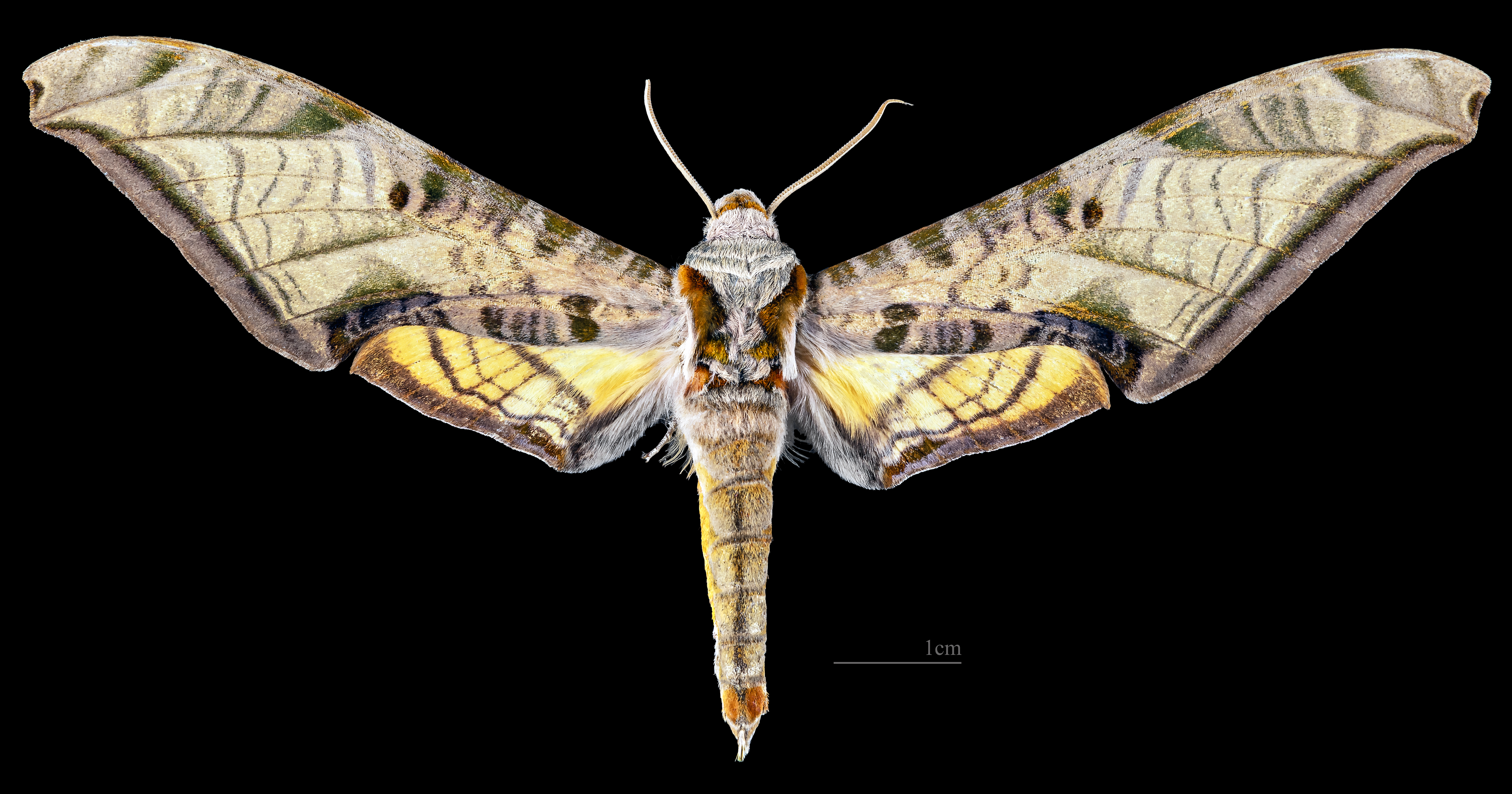 Protambulyx ockendeni - Dorsal side Collection of the Mathematician Laurent Schwartz